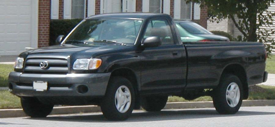 1999-2005 Toyota Tundra regular cab photographed in USA.